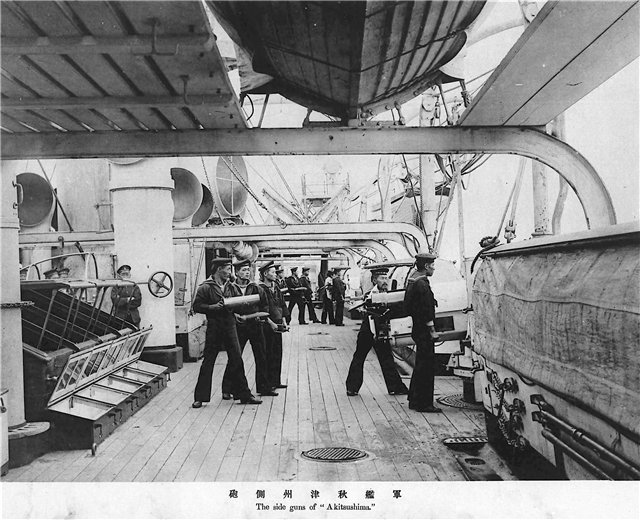 Picture of the side guns on Japanese cruiser Akitsushima